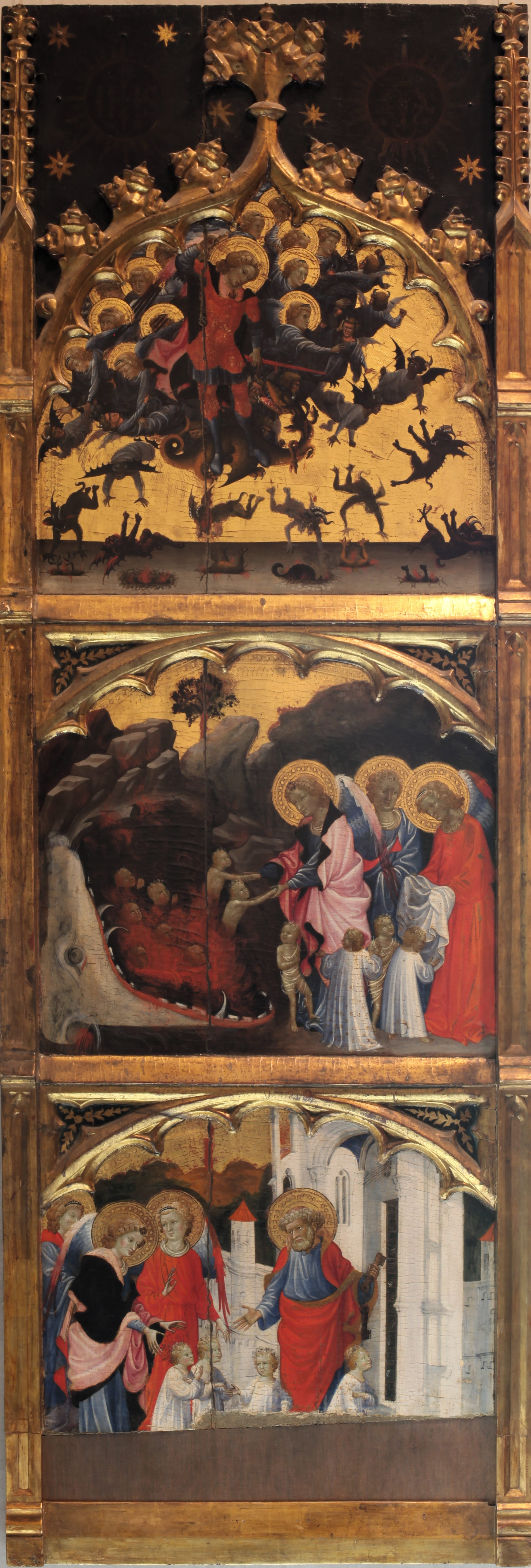 Saint Michael driving away rebel angels from Heaven (top) Saint Michael gathering souls escaped from the mouth of Hell (middle) Saint Michael introducing the souls to Saint Peter at the gates of Paradise (bottom)